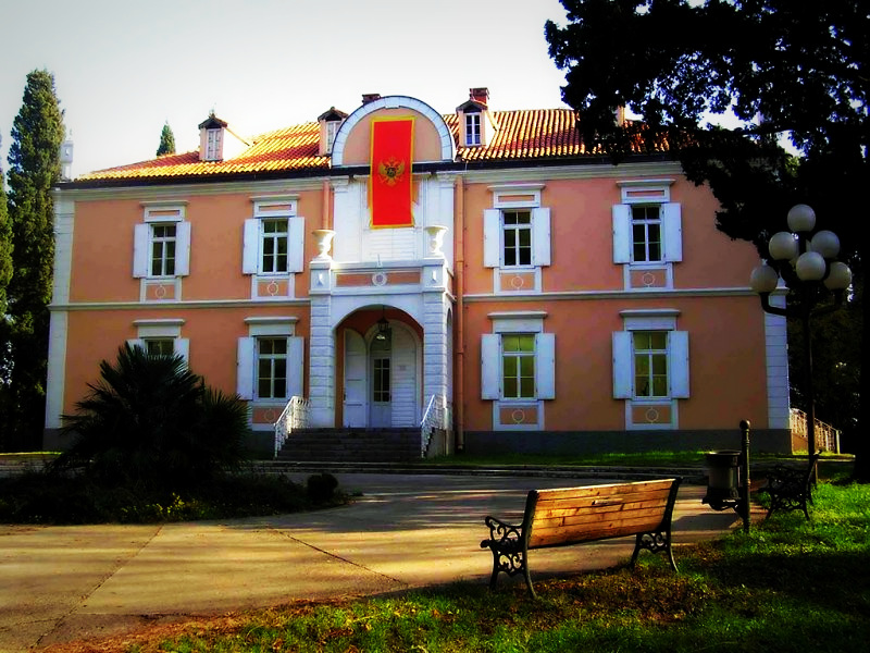 Winter royal palace of king Nicholas I Petrović-Njegoš and his family in Podgorica, Montenegro